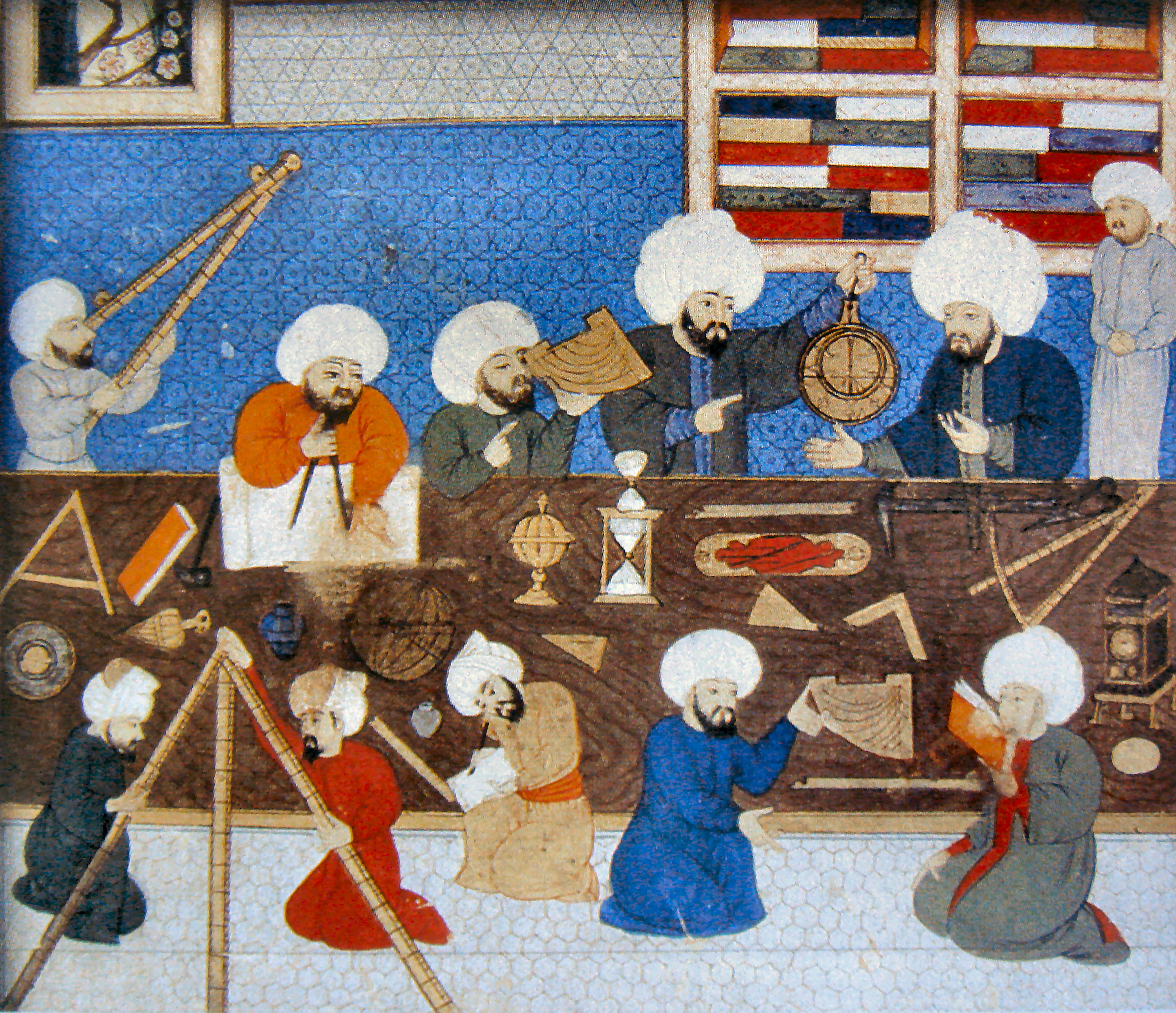 Istambul_observatory_in_1577